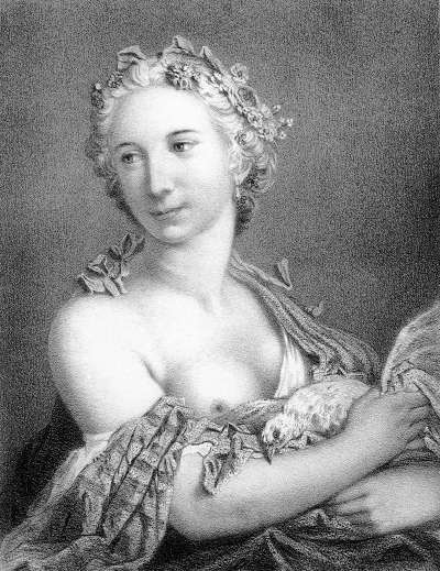 Portrait of French actress Jeanne-Françoise Quinault (1699–1783) by Eugène Louis Pirodon (1819-1882) after Maurice Quentin de La Tour (1704-1788)